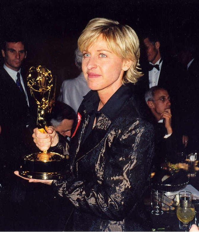 Ellen DeGeneres at the 1997 Emmy Awards (cropped)